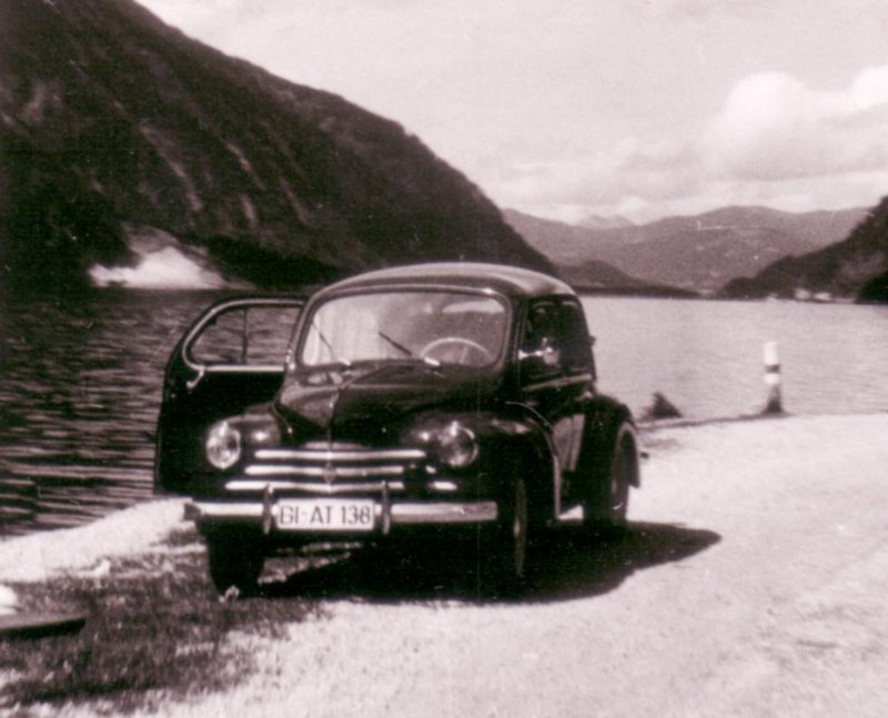 Renault 4 CV in Summer 1957 on Route along Achensee